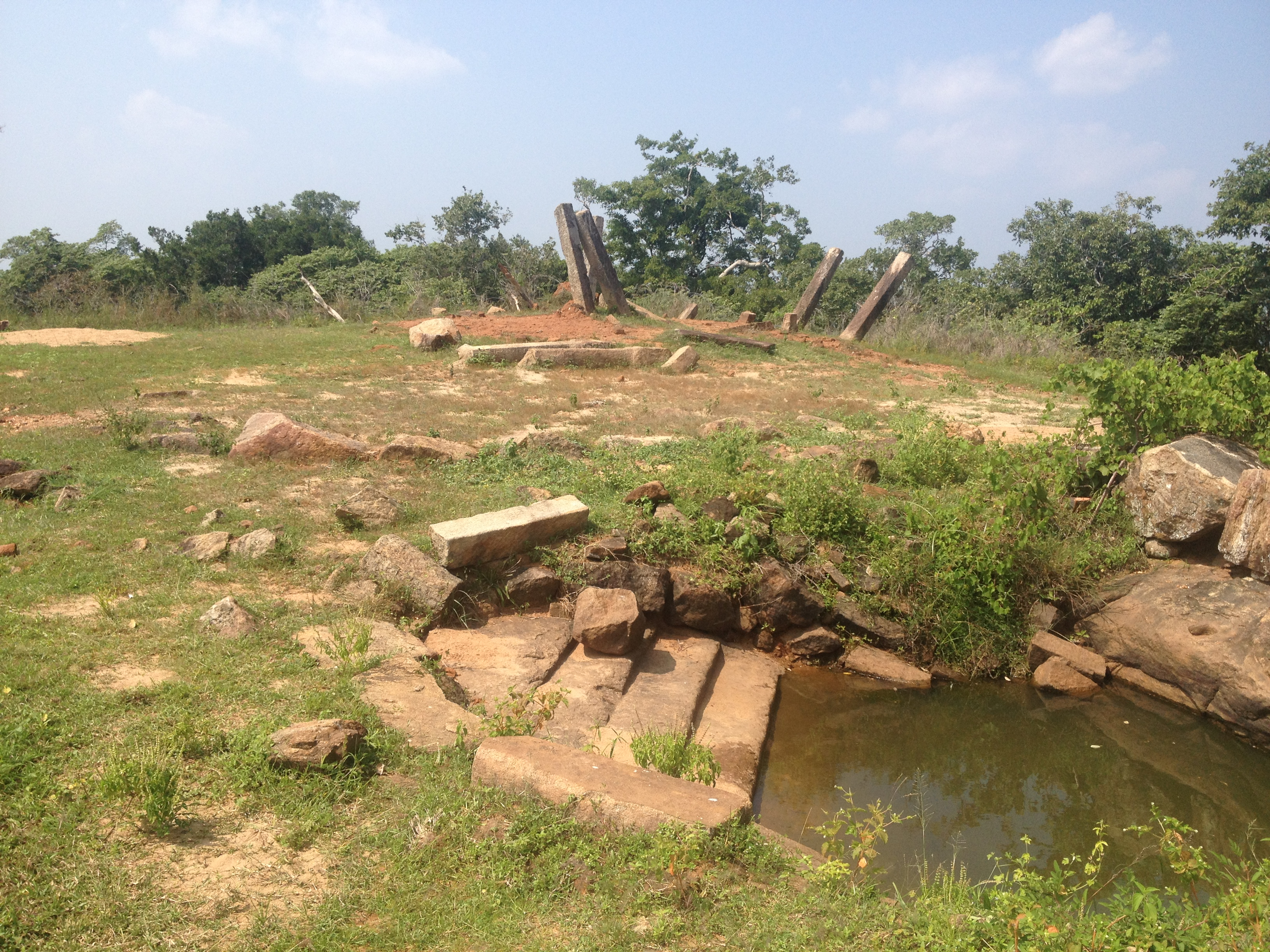 An ancient pond and ruined buildings